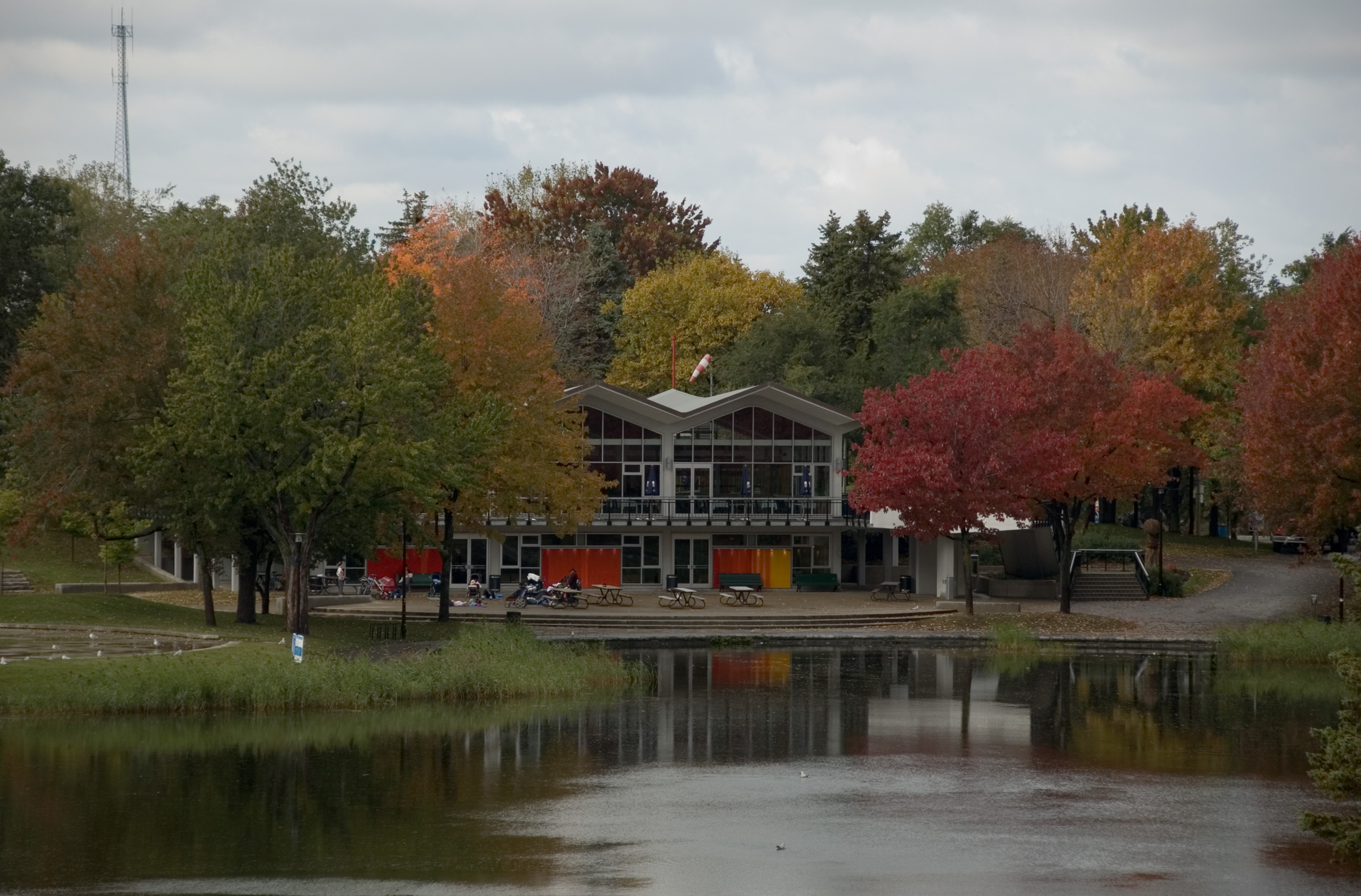 Beaver Lake Chalet Montreal Quebec Park Restaurant Autumn Leaves